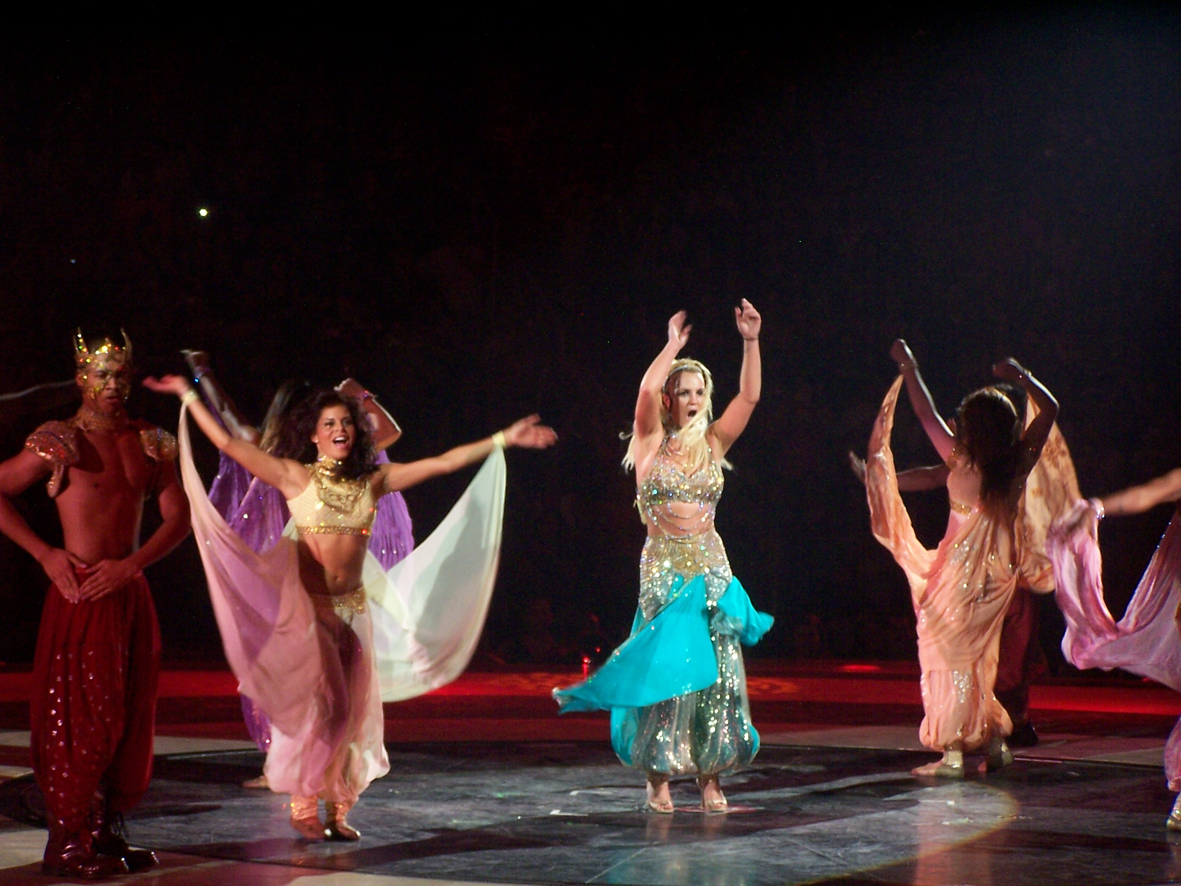 Britney Spears, Greensboro, NC 9/5/09